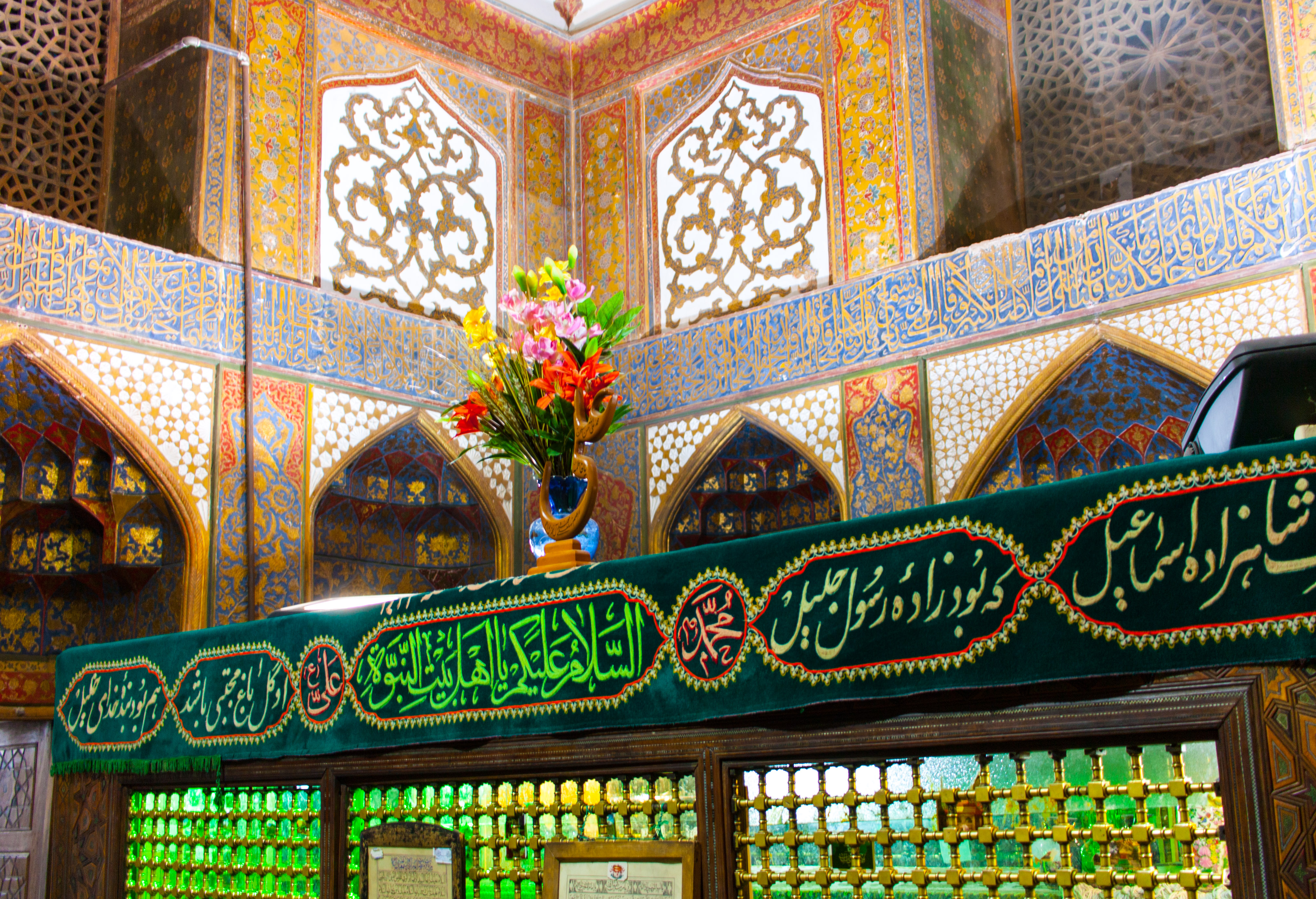 Emamzadeh Esmaeil tomb